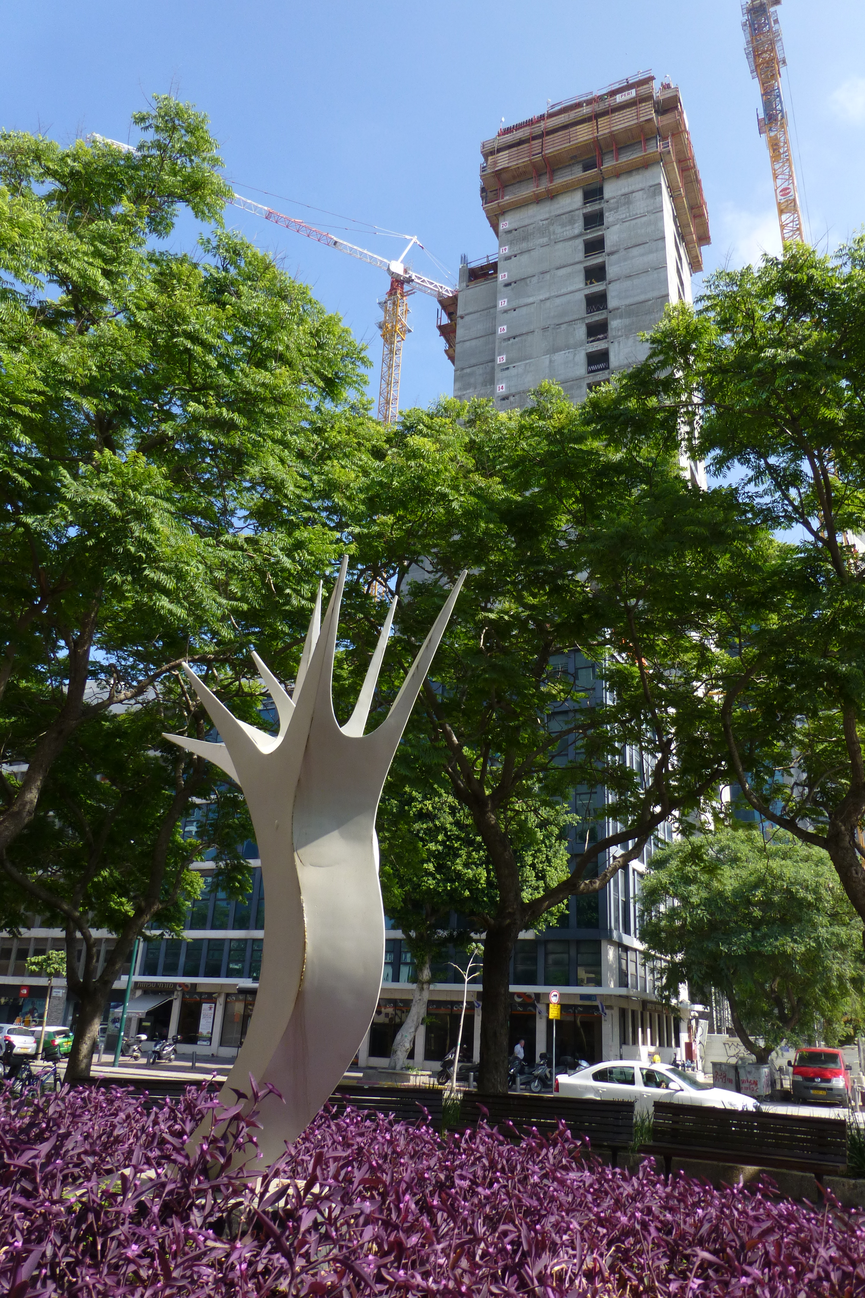 Begin Road, Tel Aviv-Yafo